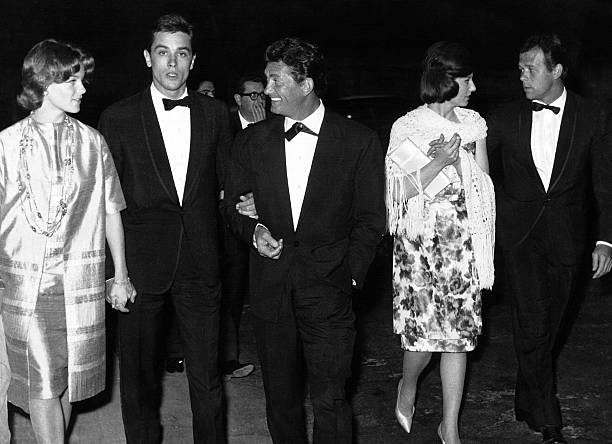 ITALY : Spoleto, Umbria, Italy. The Austrian, French and Italian actors Romy Schneider, Alain Delon, Jean Marais, Lucilla Morlacchi and Renato Salvatori (from left to right) at the Festival of the Two Worlds.